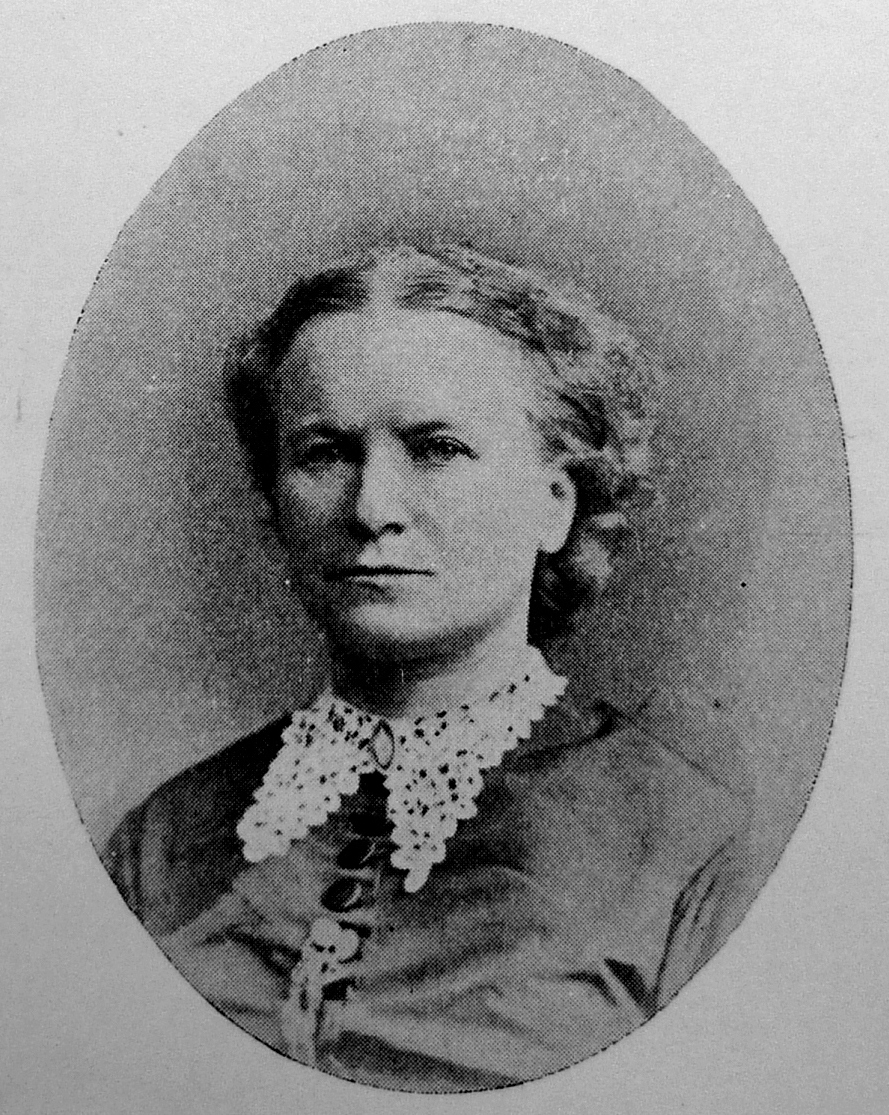 1871 and 1870 photos of suffragettes Agnes McLaren and Jane Taylour